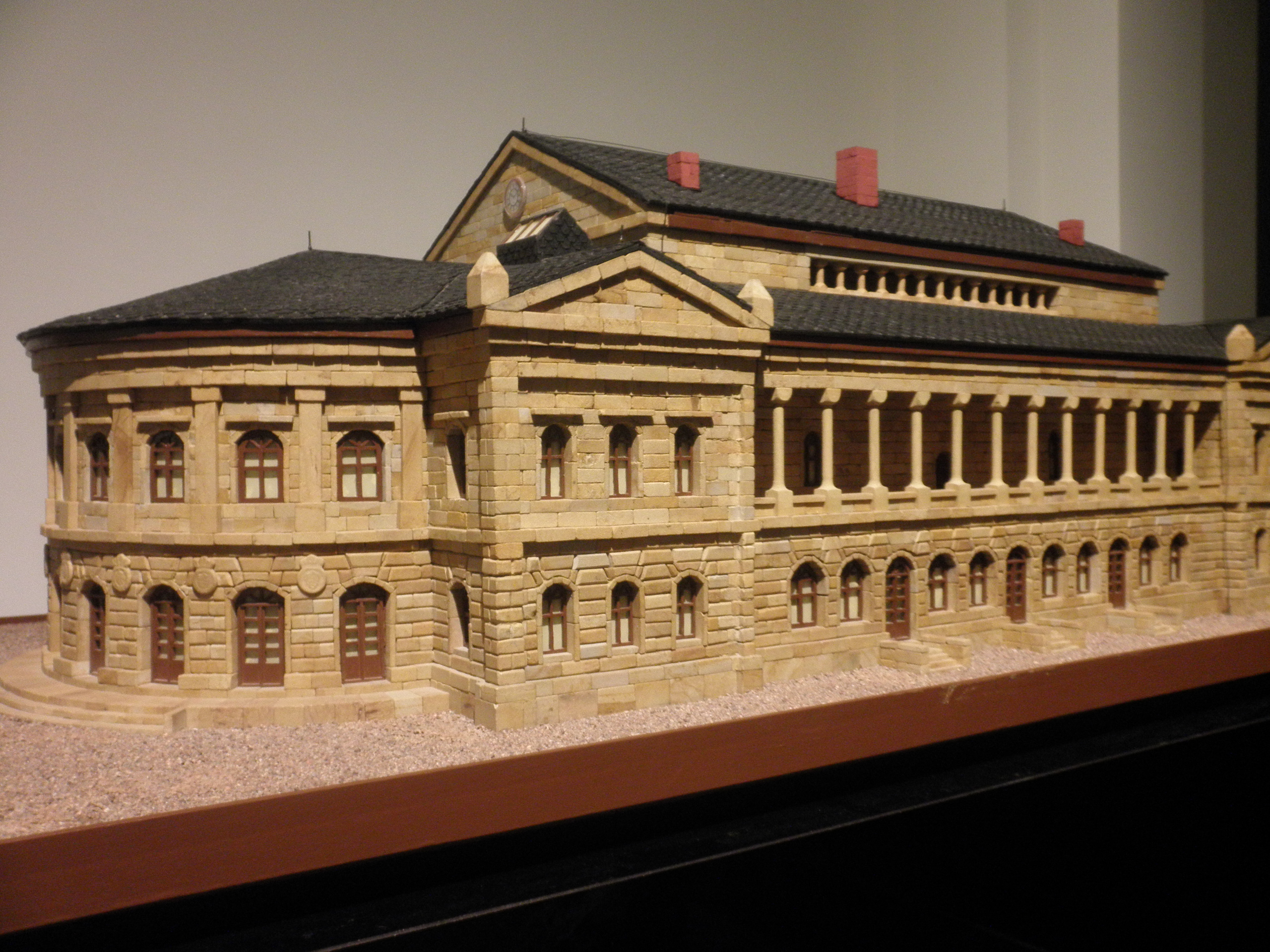 New Theater (Stadttheater) in Gotha